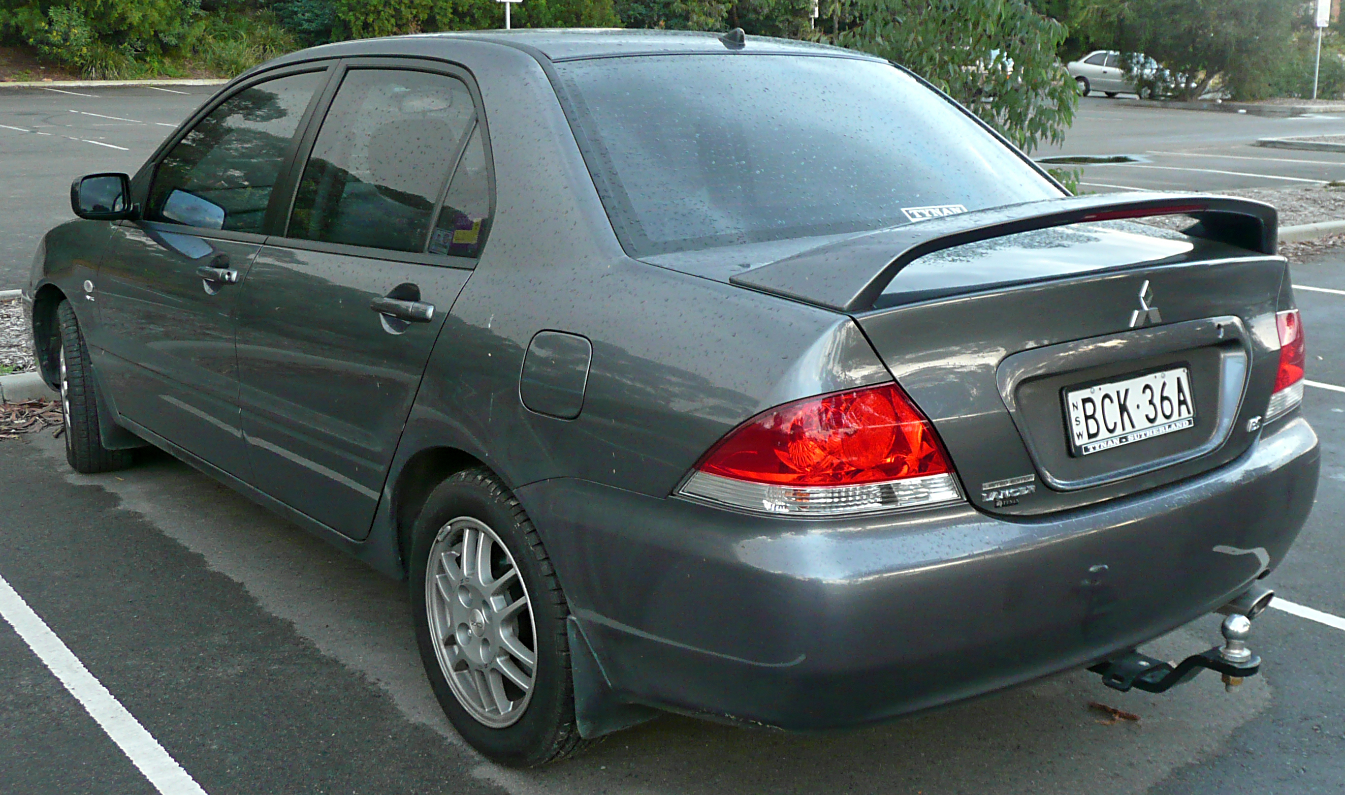 2006–2007 Mitsubishi Lancer (CH MY07) ES Limited Edition sedan. Photographed in Kirrawee, New South Wales, Australia.